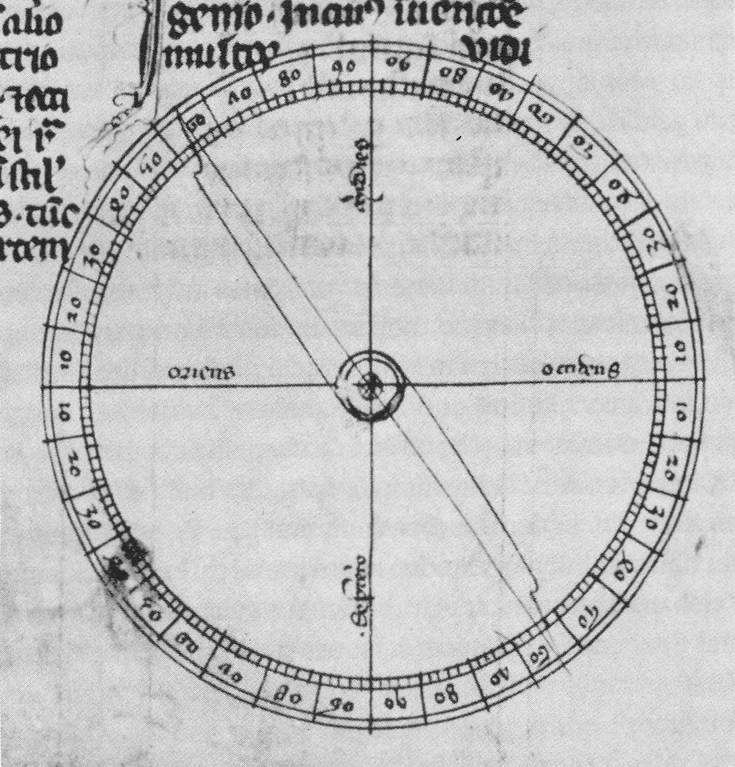 A drawing of a compass in a mid 14th-century copy of Epistola de magnete of Peter Peregrinus. MS. Ashmole 1522, fol. 186r, Bodleian Library.